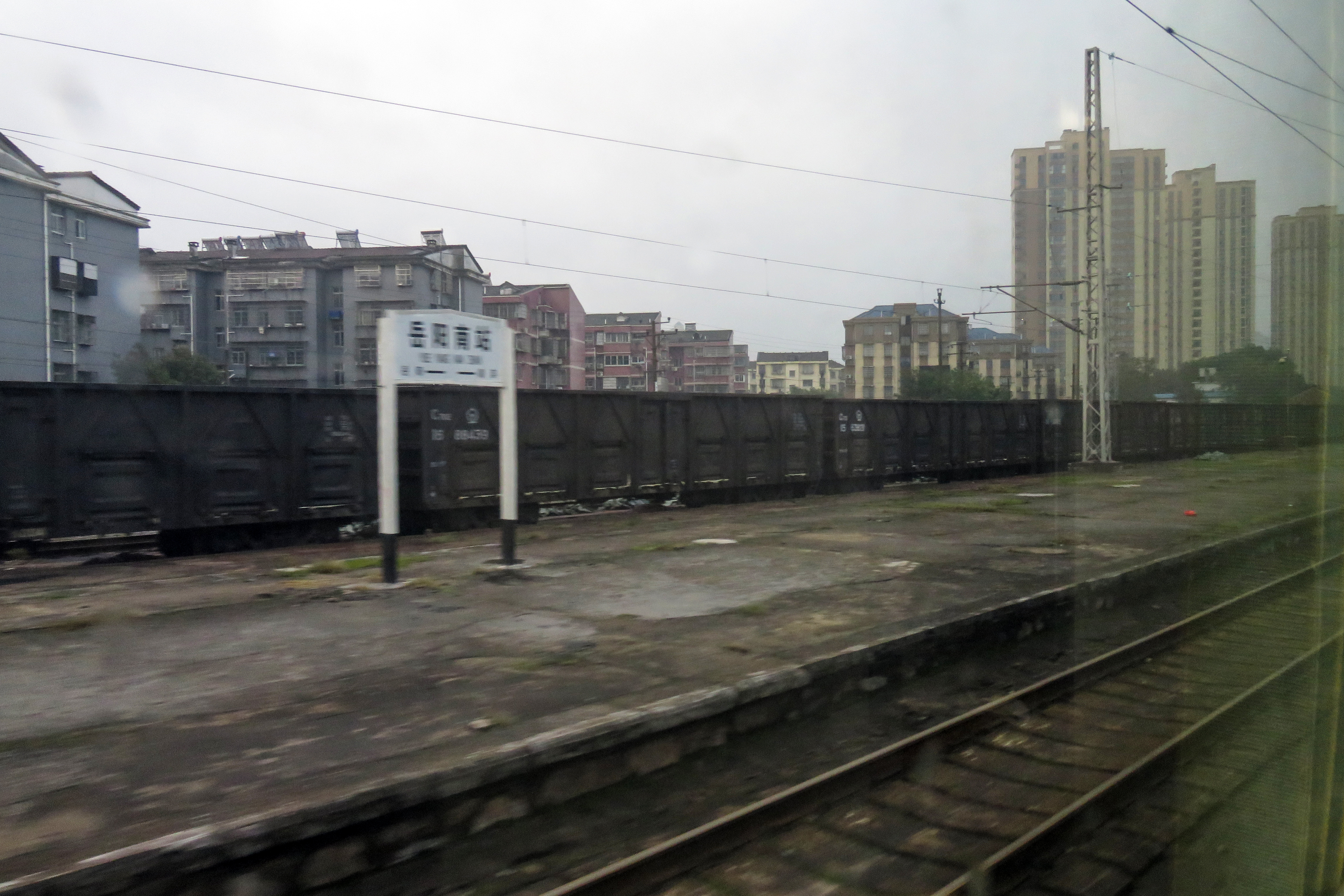 Large, empty platform.